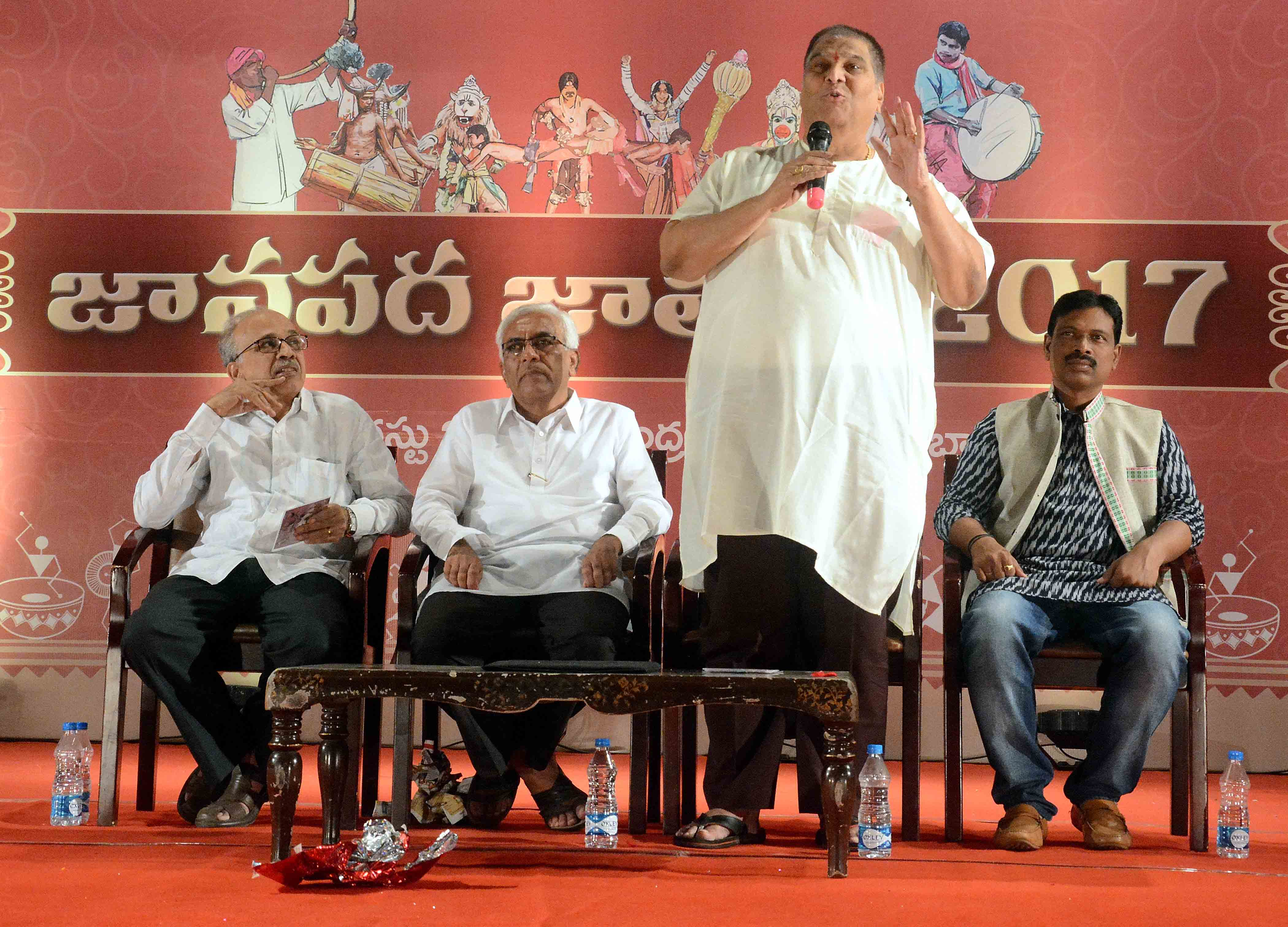 Dr. KV Ramanachary, Ayachitham Sridhar, Dr. Nandini Sidhareddy, Mamidi Harikrishna in Janapada Jathara 2017 Closing Ceremony in Ravindra Bharathi, Hyderabad